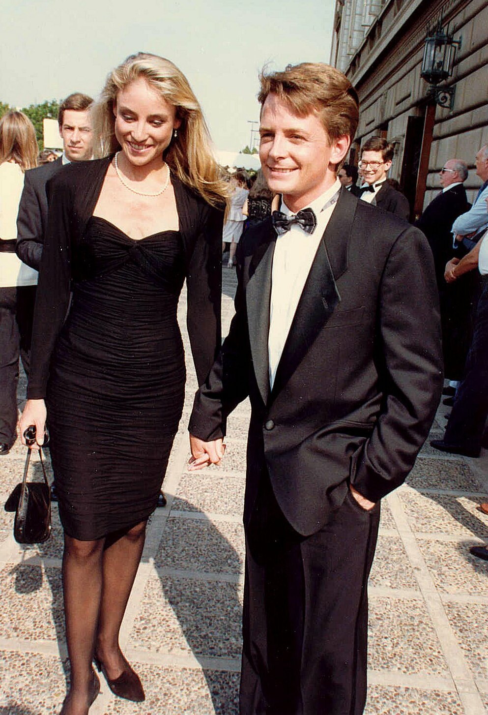 Actor Michael J Fox and Tracy Pollan at the 40th Emmy Awards